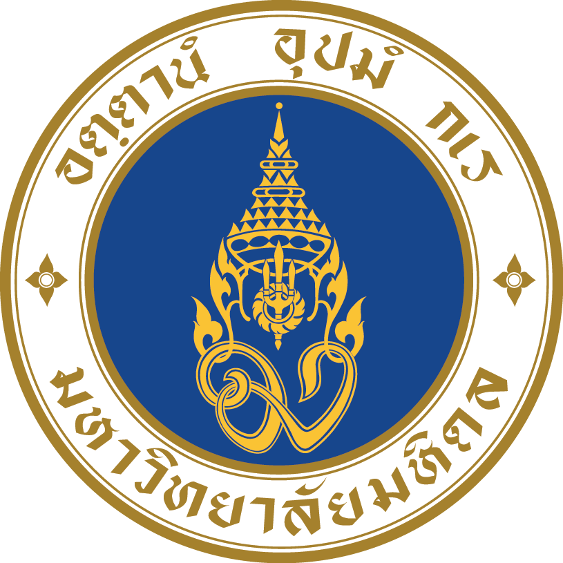 logo of Mahidol University